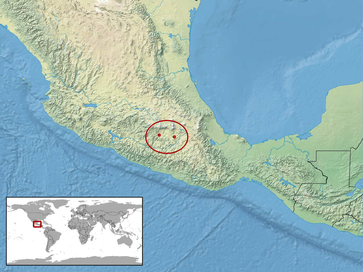 geographic distribution of Coniophanes melanocephalus (Native: Mexico)